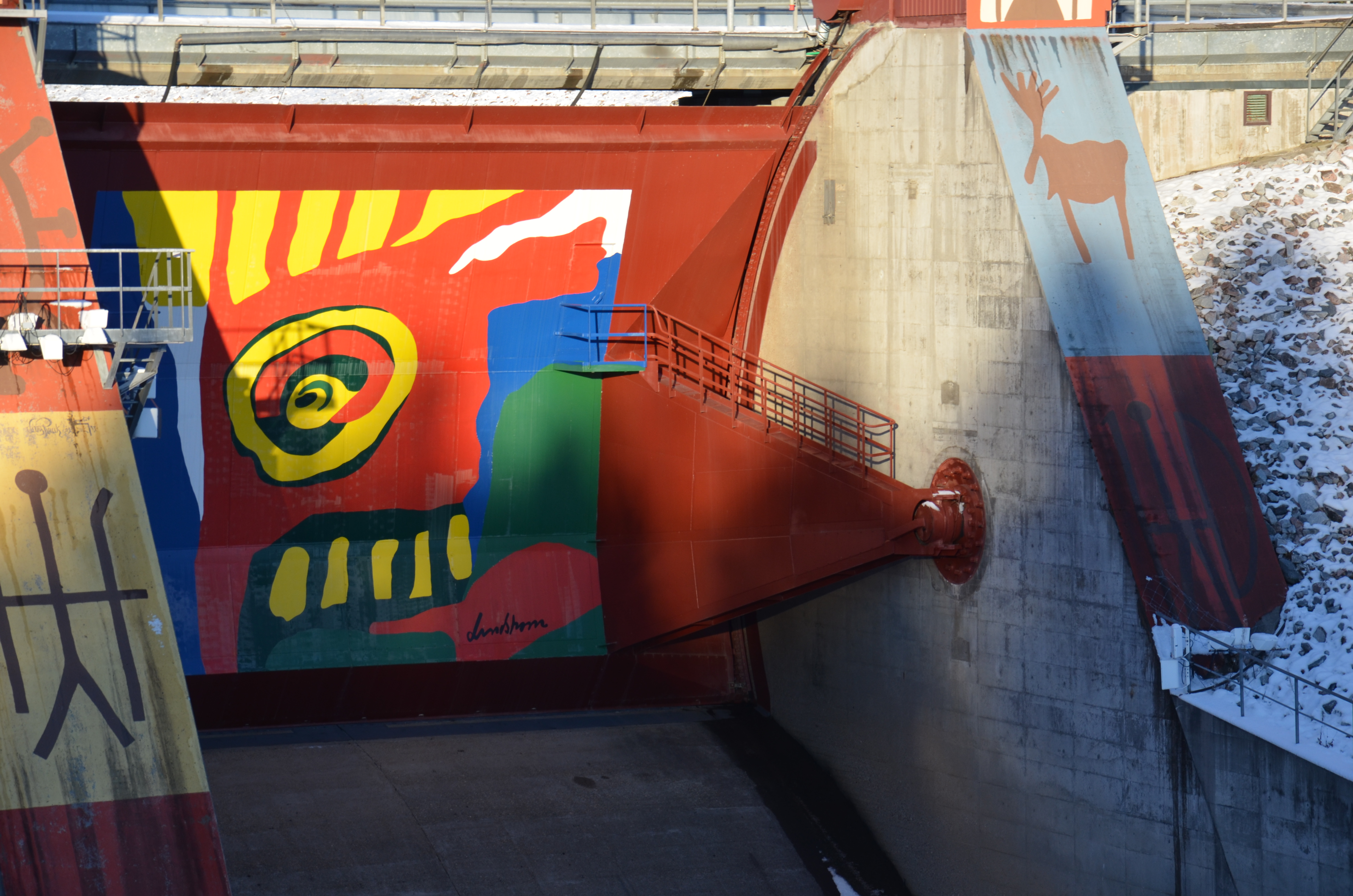 Bengt Lindströms målning på norra utskovsluckan, Akkats